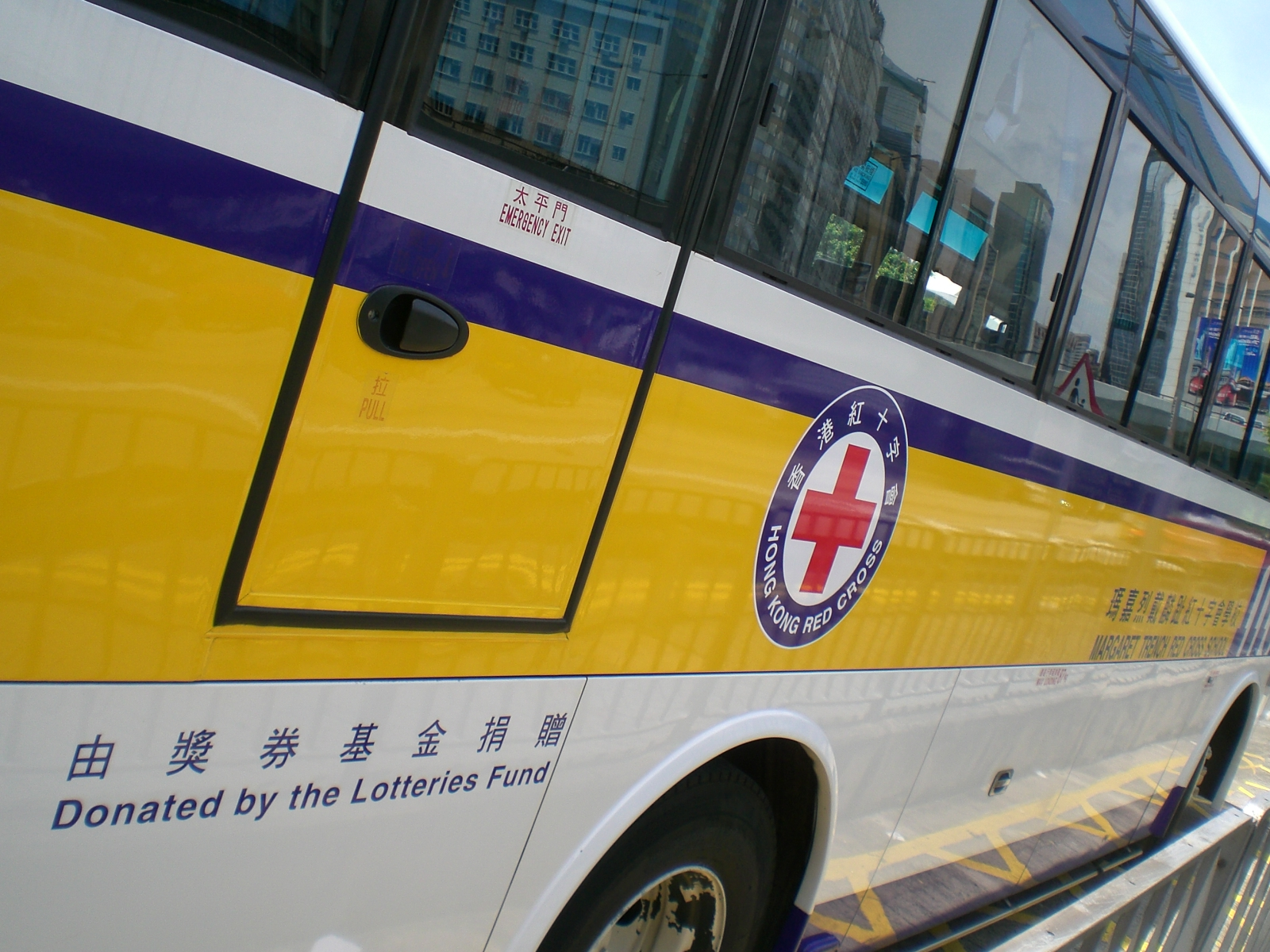 Red Cross School's bus, Hong Kong